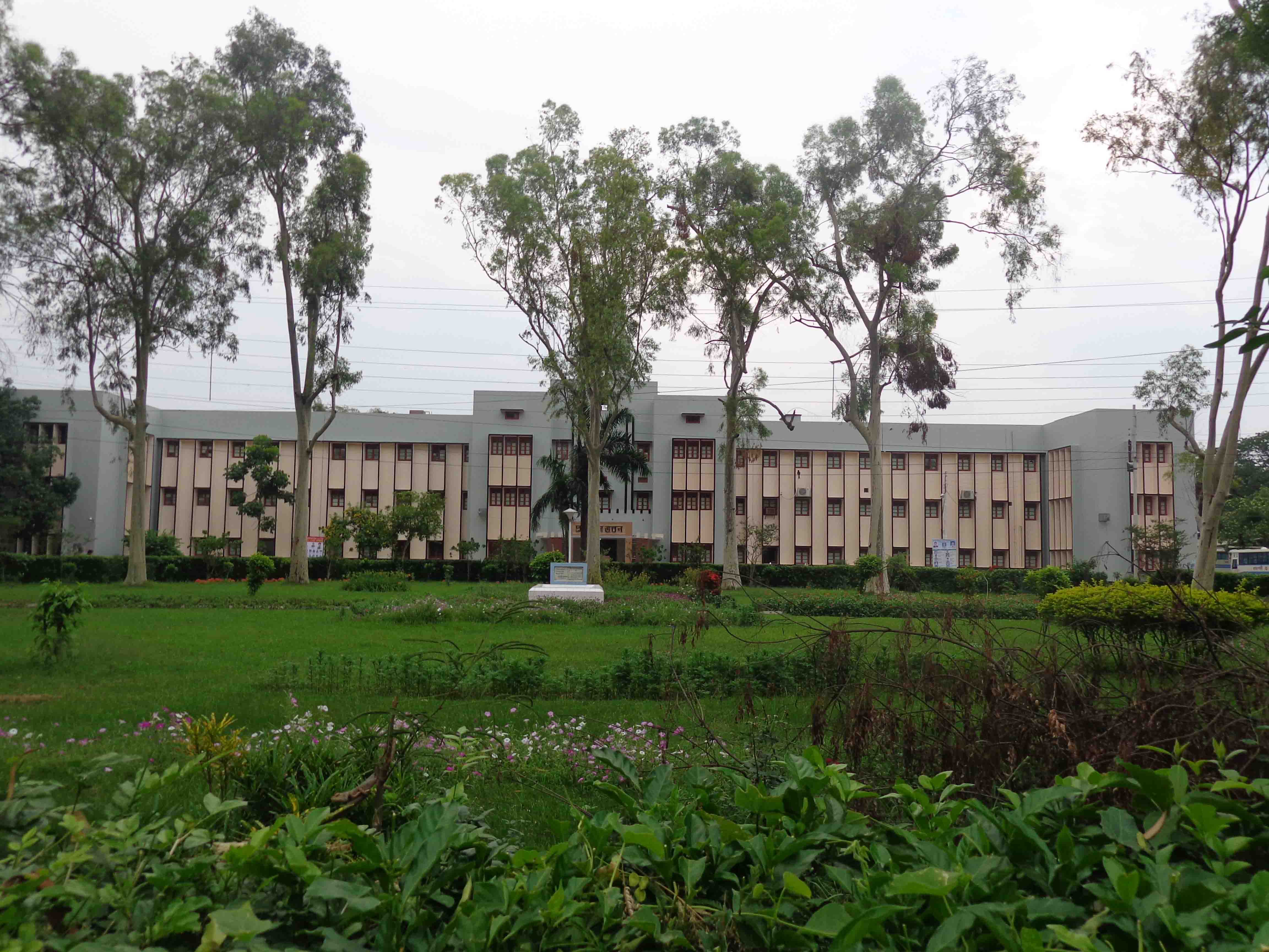 Administration Building Of RU